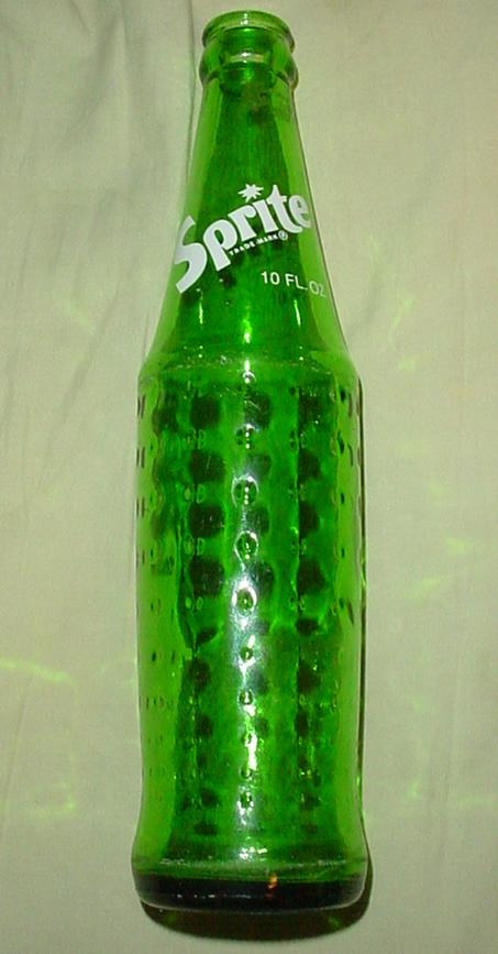 Sprite bottle